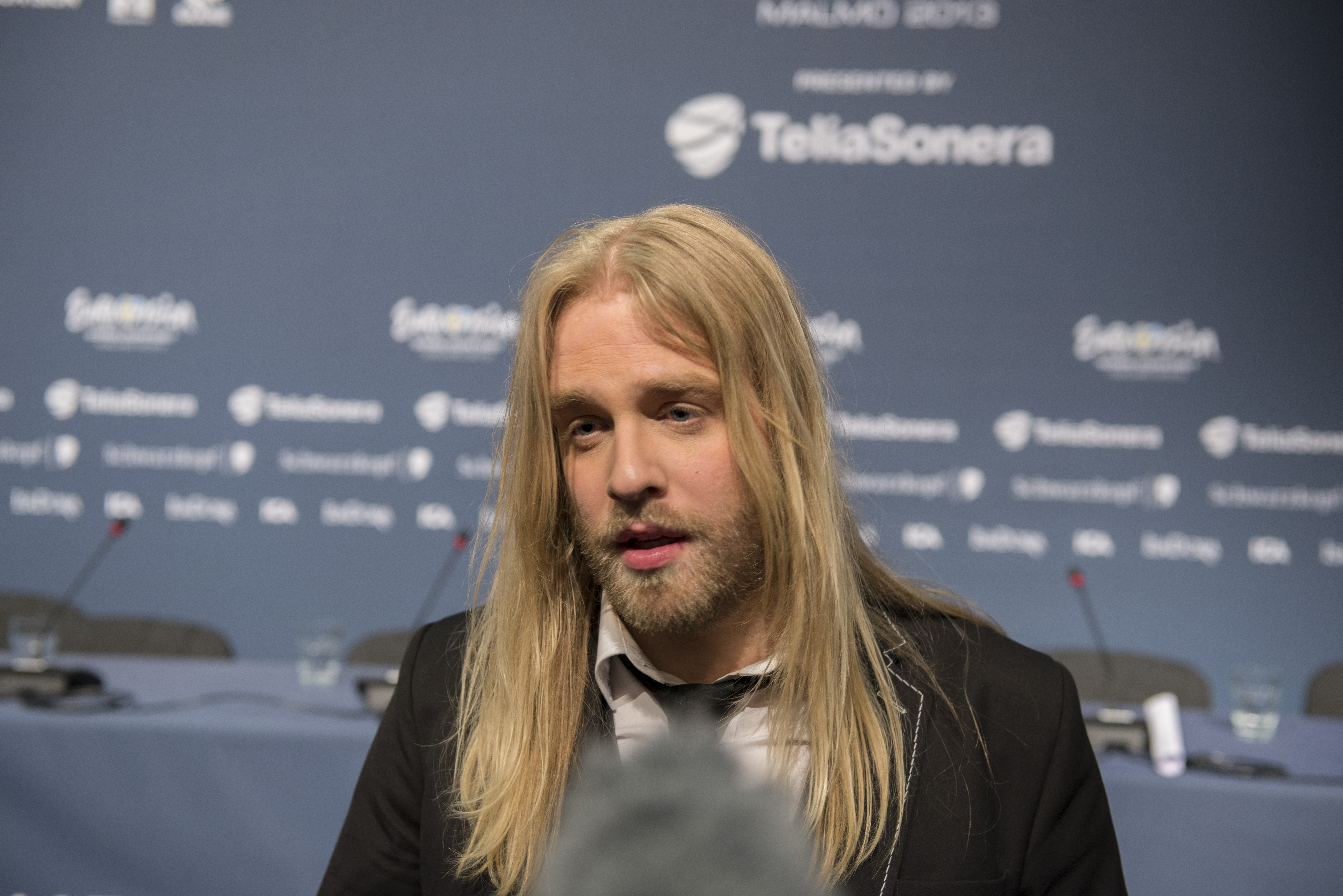 Eythor Ingi at a press conference during the Eurovision Song Contest 2013 in Malmö. (Help translate this text)